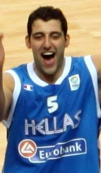 The Greek National Team of Basketball... Greece edged Turkey in a EuroBasket Quarter-Final thriller. [Turkey 74-76 Greece, Eyrobasket 2009, Poland] Turkey 76-74 Greece